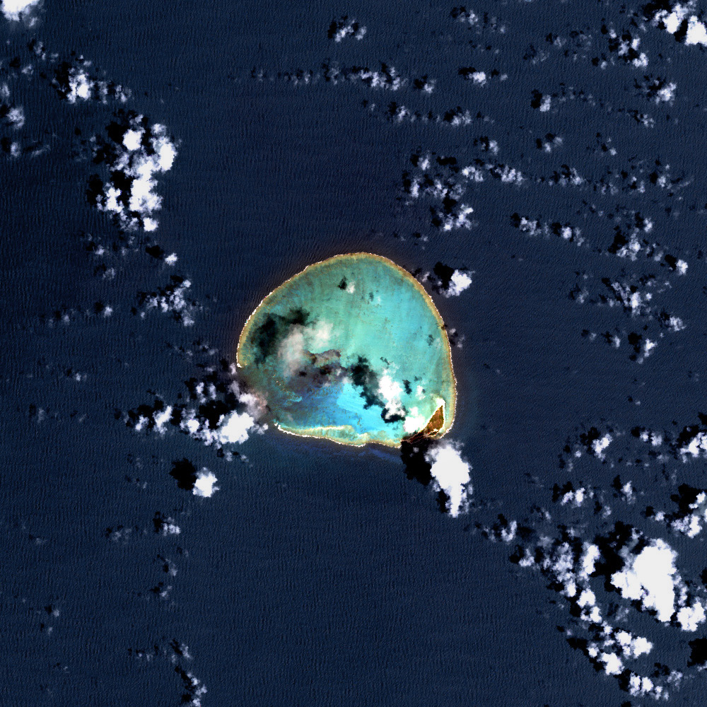 Kure Atoll, Northwestern Hawaiian Islands - Satellite image from USGS' Landsat7 Satellite